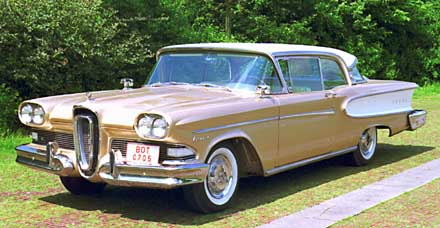 A 1958 Edsel Corsair, registered in Bottrop, Germany.